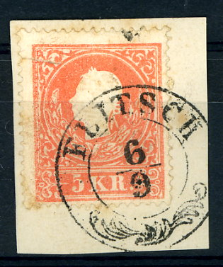 Austria Issue II type II - 5 kreuzer - cancelled Flitsch (Bovec, Slovenia)